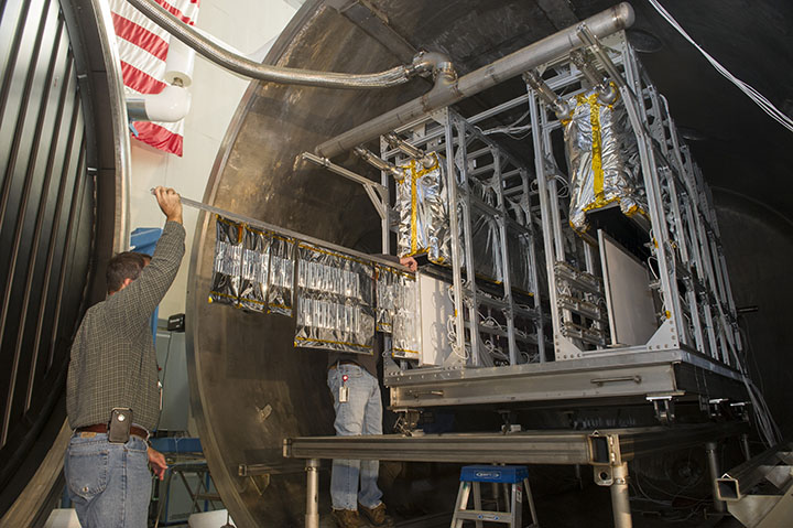 Engineers and test technicians load shiny test coupons inside one of the vacuum chambers in the Environmental Test Facility at NASA's Marshall Space Flight Center in Huntsville, Ala. The coupons are made of the same material that will be used to fabricate the the sunshield that will protect NASA’s James Webb Space Telescope from heat that might interfere with the operation of its mirrors and infrared sensors. During a series of three tests, coupons were exposed to extreme hot and cold temperature over a period of several weeks. This simulated the conditions where the James Webb Space Telescope sunshield will operate a million miles from Earth. The first set of coupons has already successfully completed stress and structural analysis by ManTech International Corporation, the Huntsville company that is designing and fabricating the sunshields.